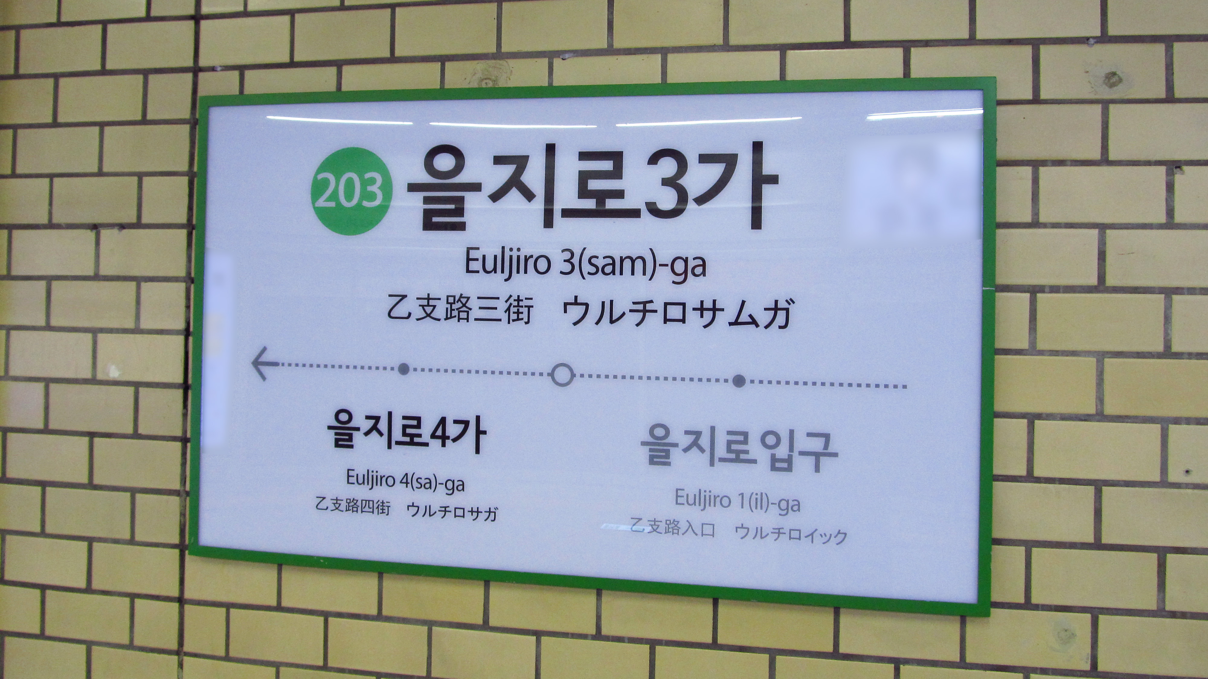 A sign of Euljiro 3-ga Station on Seoul Subway Line 2